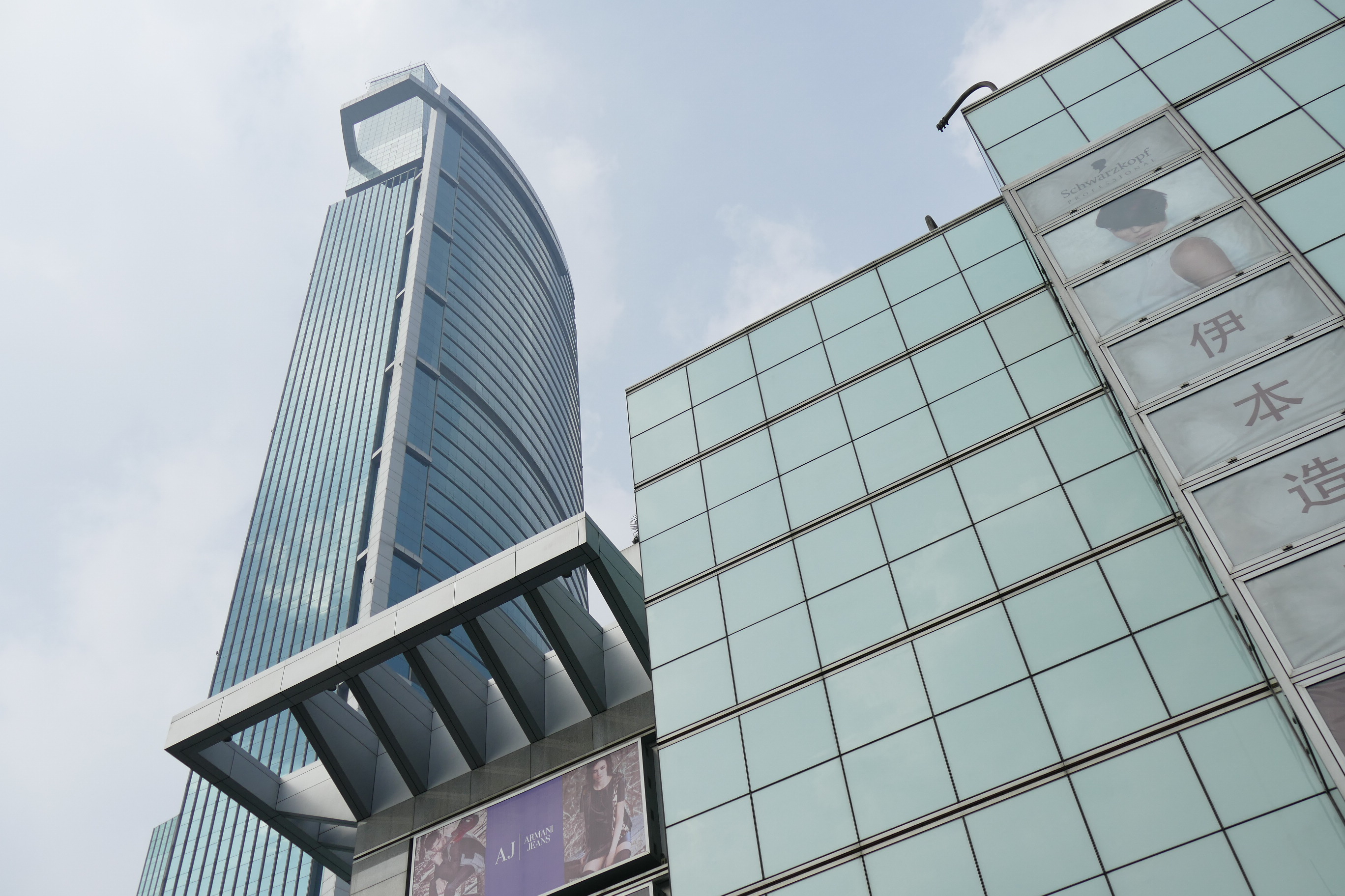 Buildings at Nanjing West Road - Shanghai, China, 17.11.2014